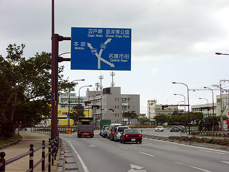 Miyasato 3chome Intersection